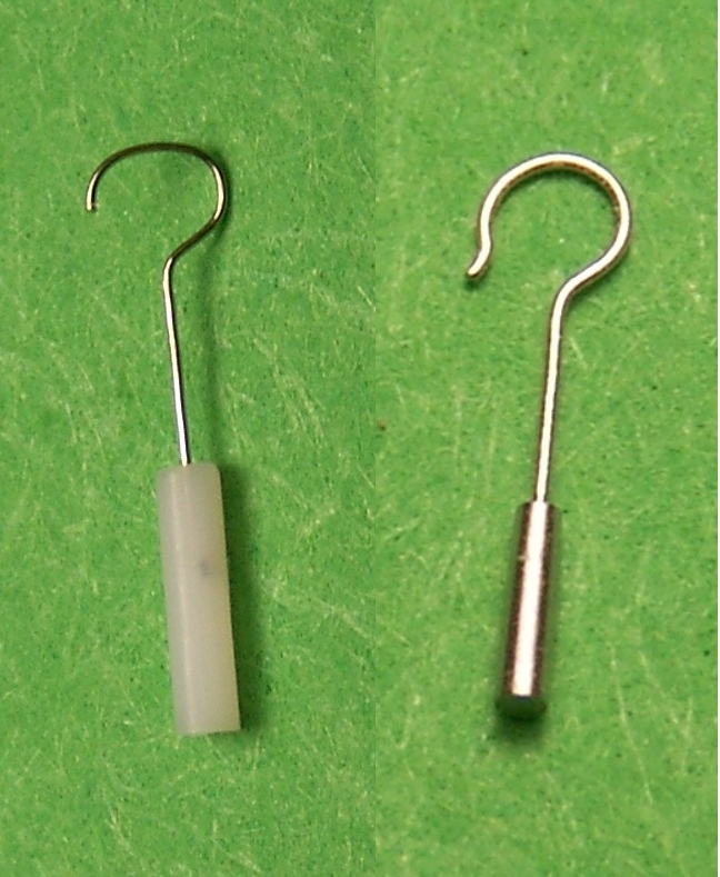 Stapesprothesen, Platin-Teflon-Prothese, Titan-Prothese